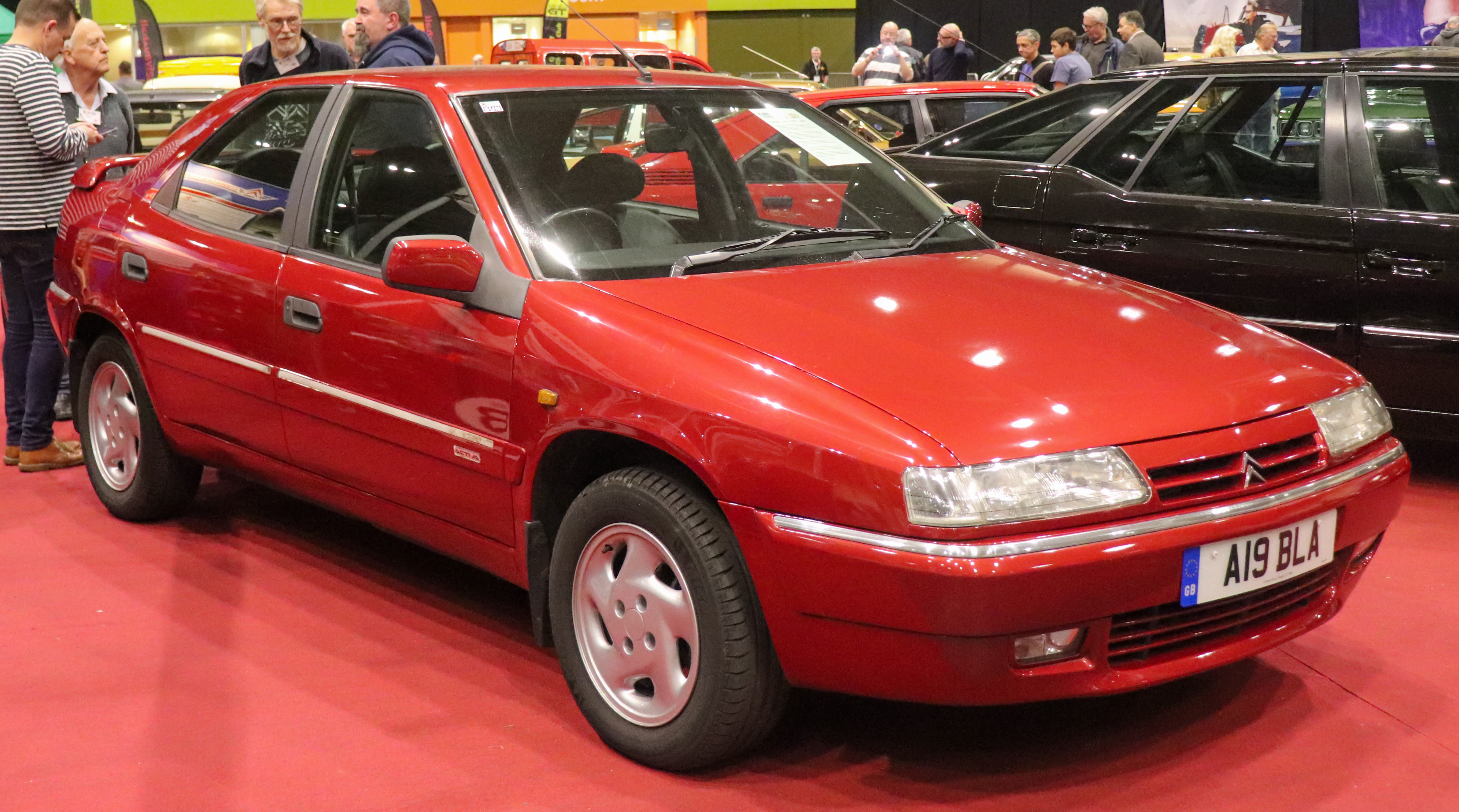 1996 Citroen Xantia Activa Turbo 3.0 Taken at the NEC Classic Motor Show 2019